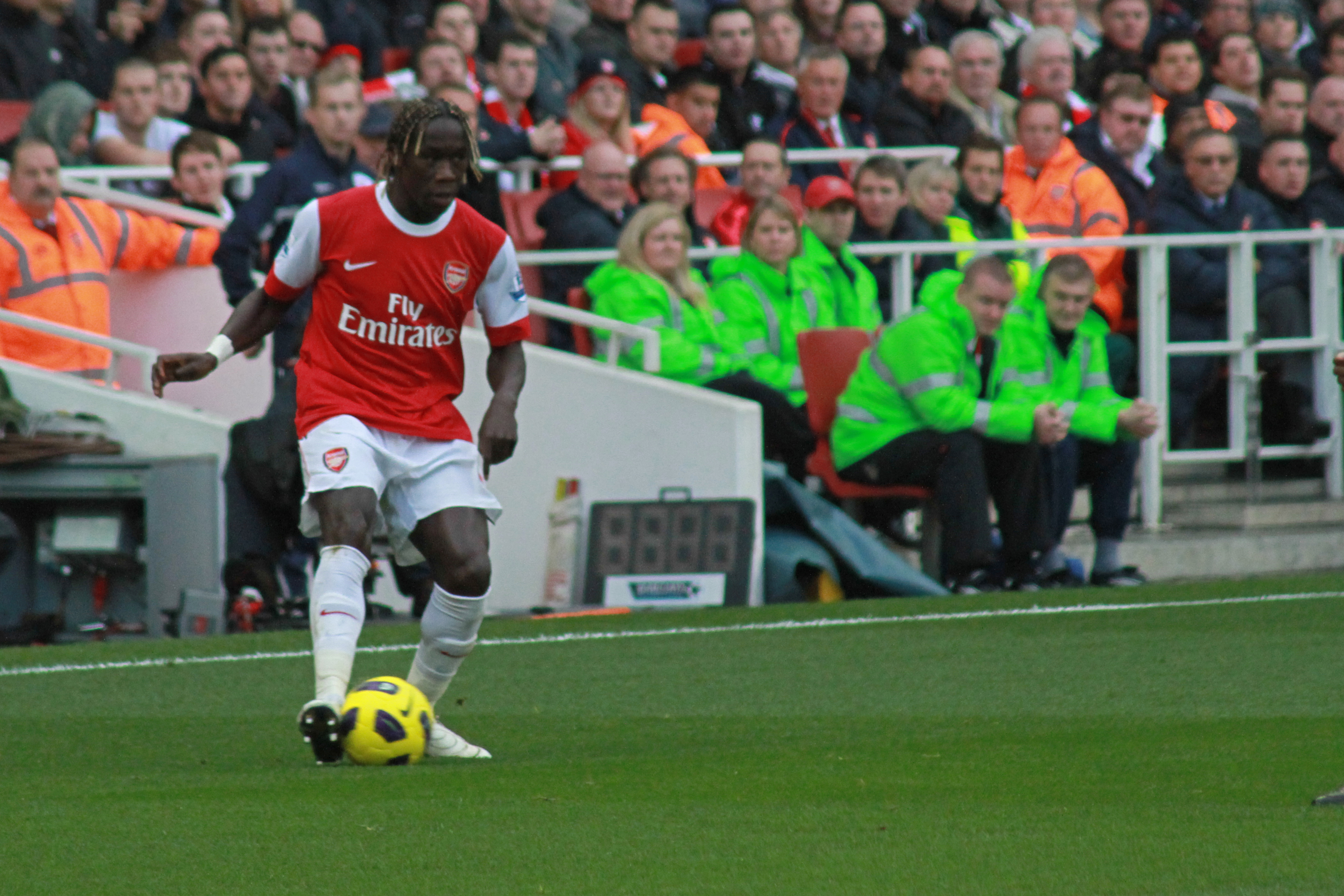 Bacary Sagna of Arsenal attempts a cross